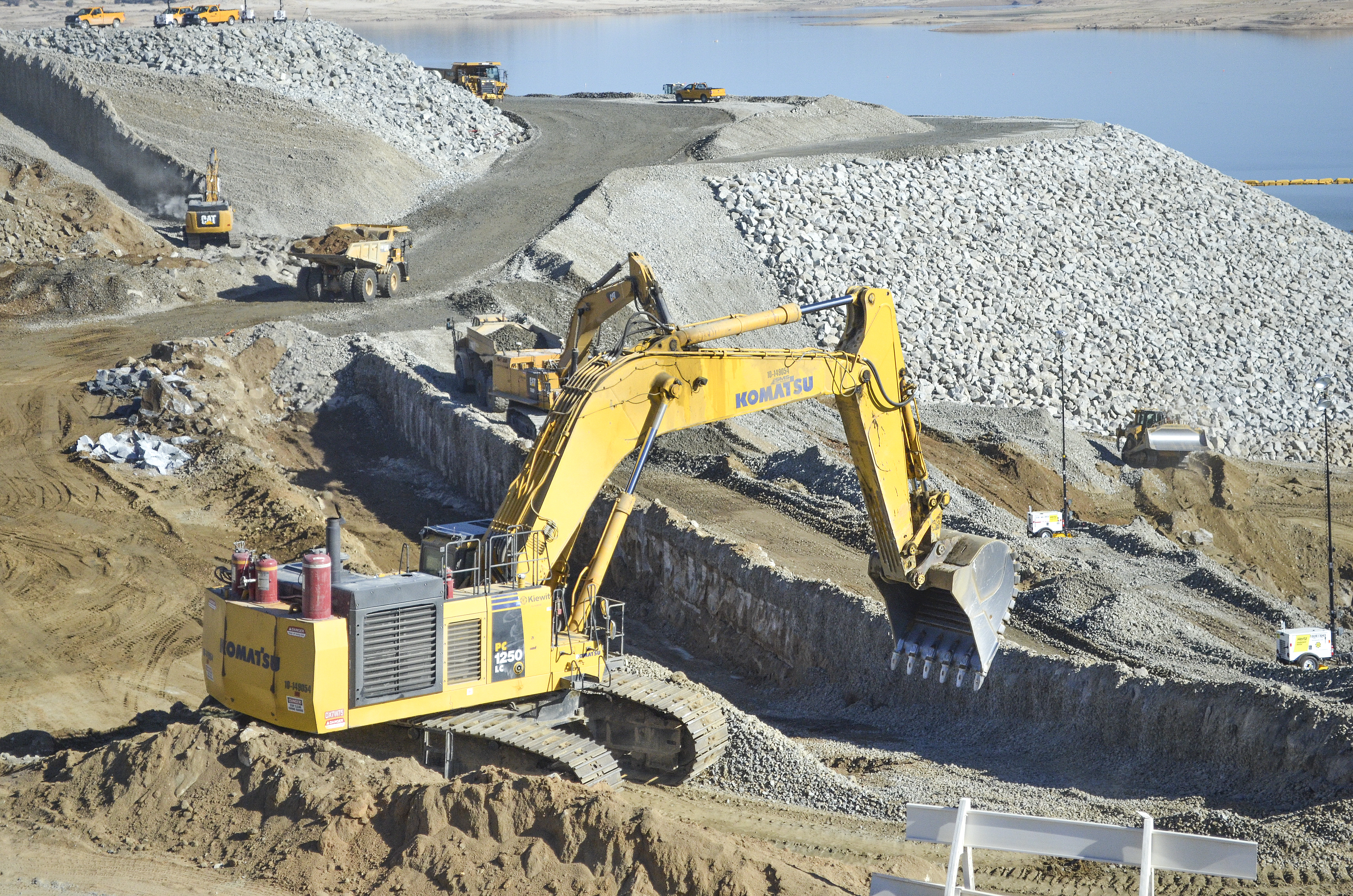 Construction crews for U.S. Army Corps of Engineers Sacramento District excavate a temporary embankment Sept. 23, 2015, as work continues on the Folsom Dam auxiliary spillway in Folsom, Calif. The Corps will excavate more than 1 million cubic yards of earth and rock to complete the approach channel, which will connect the reservoir to the new spillway. The project is part of a $900-million cooperative effort between the U.S. Army Corps of Engineers, U.S. Bureau of Reclamation, Central Valley Flood Protection Board and the Sacramento Area Flood Control Agency to improve the safety of Folsom Dam and reduce flood risk for the Sacramento area. (U.S. Army photo by Randy Gon / Released)